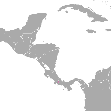 Chiriqui Olingo (Bassaricyon pauli) range